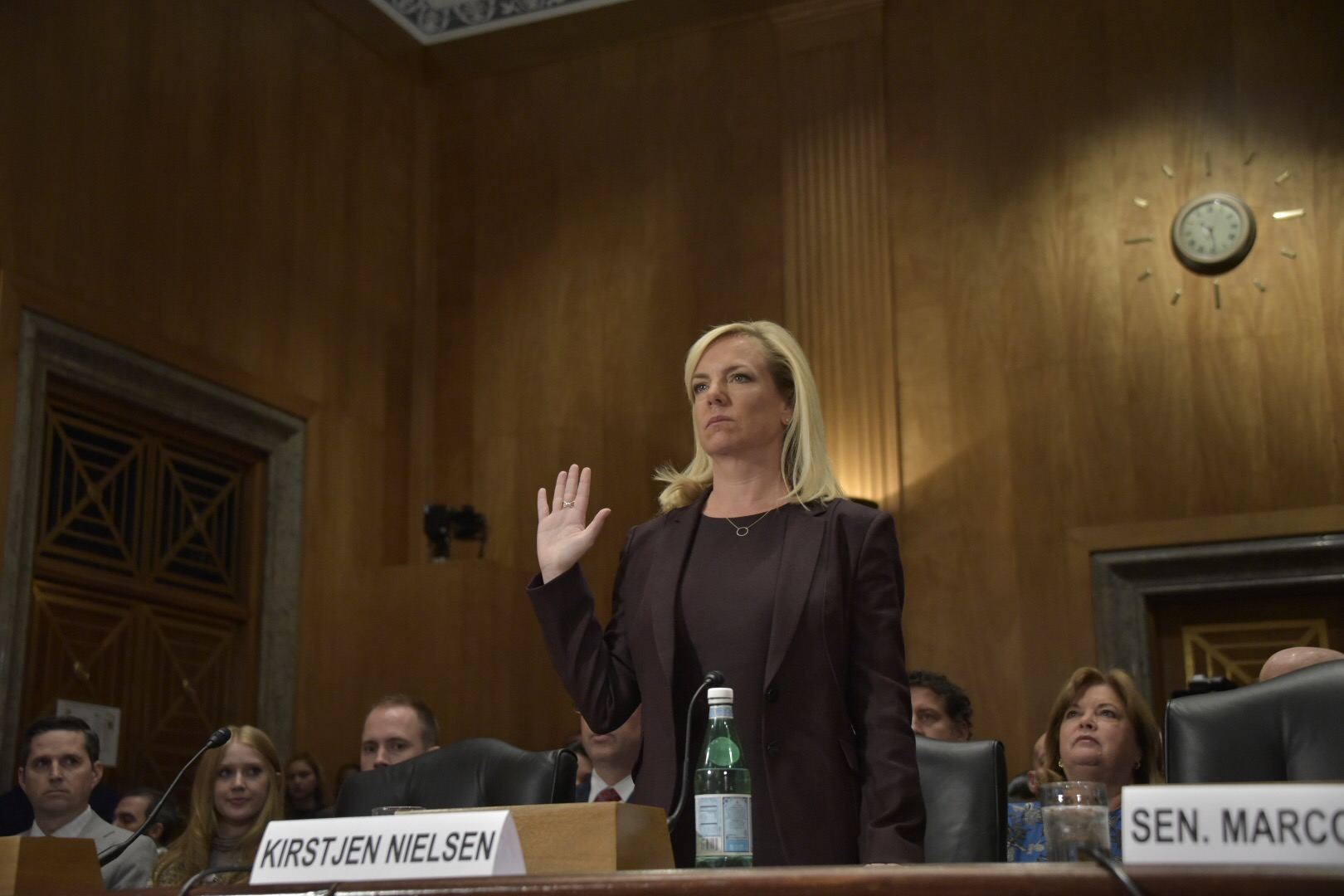 WASHINGTON – Kirstjen Nielsen is sworn in at a hearing on her nomination to become the 6th Secretary of the Department of Homeland Security by the Senate Homeland Security and Governmental Affairs committee in Washington, D.C., Nov. 08, 2017. Nielsen would be the first former Department of Homeland Security employee to become the secretary. Official DHS photo by Jetta Disco.